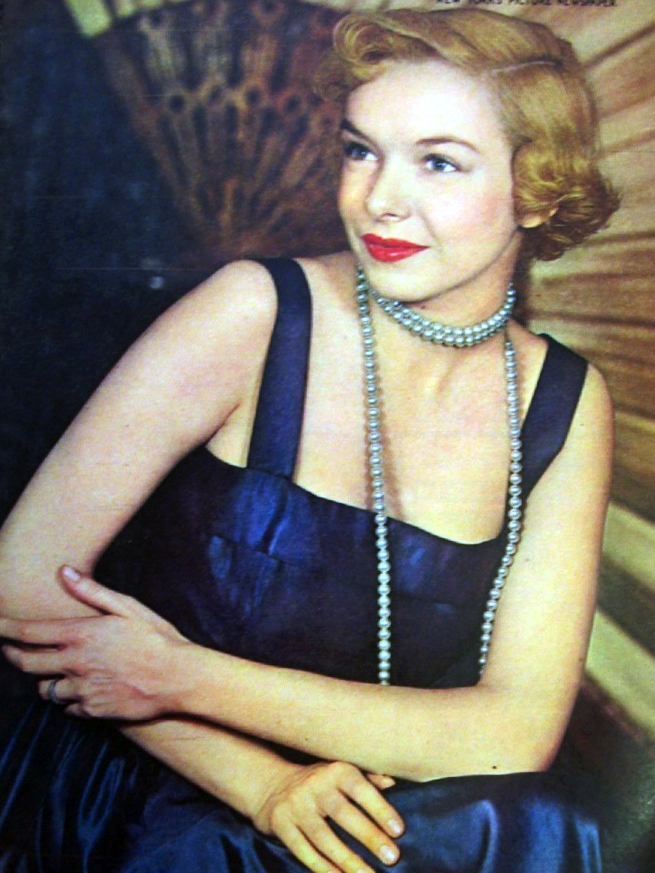 Photo of Diana Lynn from the New York Sunday News. Dating is at upper left of uncropped photo.